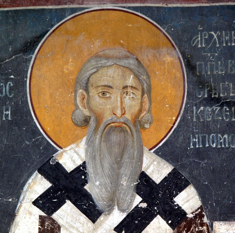 The fresco of young Saint Sava, King`s Church in Studenica, Serbia